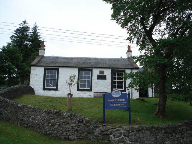 Miners' Library, Wanlockhead The Miners' Library, Wanlockhead, is the second oldest subscription library in Europe.